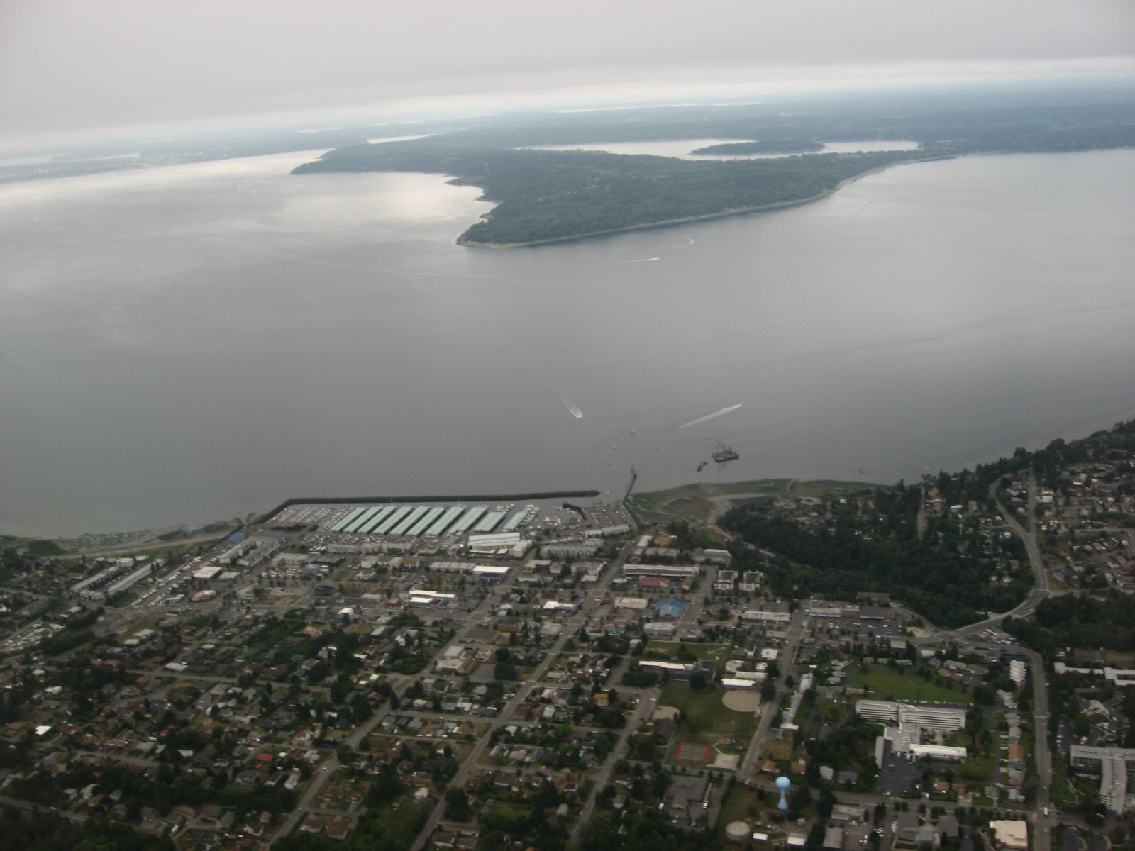 Des Moines is a city in King County, Washington, United States. The population was 29,673 at the 2010 census. Des Moines is located on the east shore of Puget Sound, approximately halfway between the major cities of Seattle and Tacoma. The city is bordered by the suburbs of Federal Way to the south, Kent to the east, Sea-Tac to the northeast, Burien to the north, and Normandy Park to the northwest. It is one of the few points along this shoreline where the topography facilitates access to the water, and a recreational marina operated by the city, with moorage, boat launching and pier fishing facilities, is located there. Forested Saltwater State Park on a steep ravine between the Zenith and Woodmont neighborhoods is the most-used State Park on the Sound. Near the border of Federal Way, Redondo has a board-walk complete with a Salty's restaurant and a pay parking lot. Property within the city has been the subject of land buyouts because of noise from aircraft landing or taking off from the Seattle-Tacoma International Airport two miles (about 3.2 km) to the north of Des Moines.